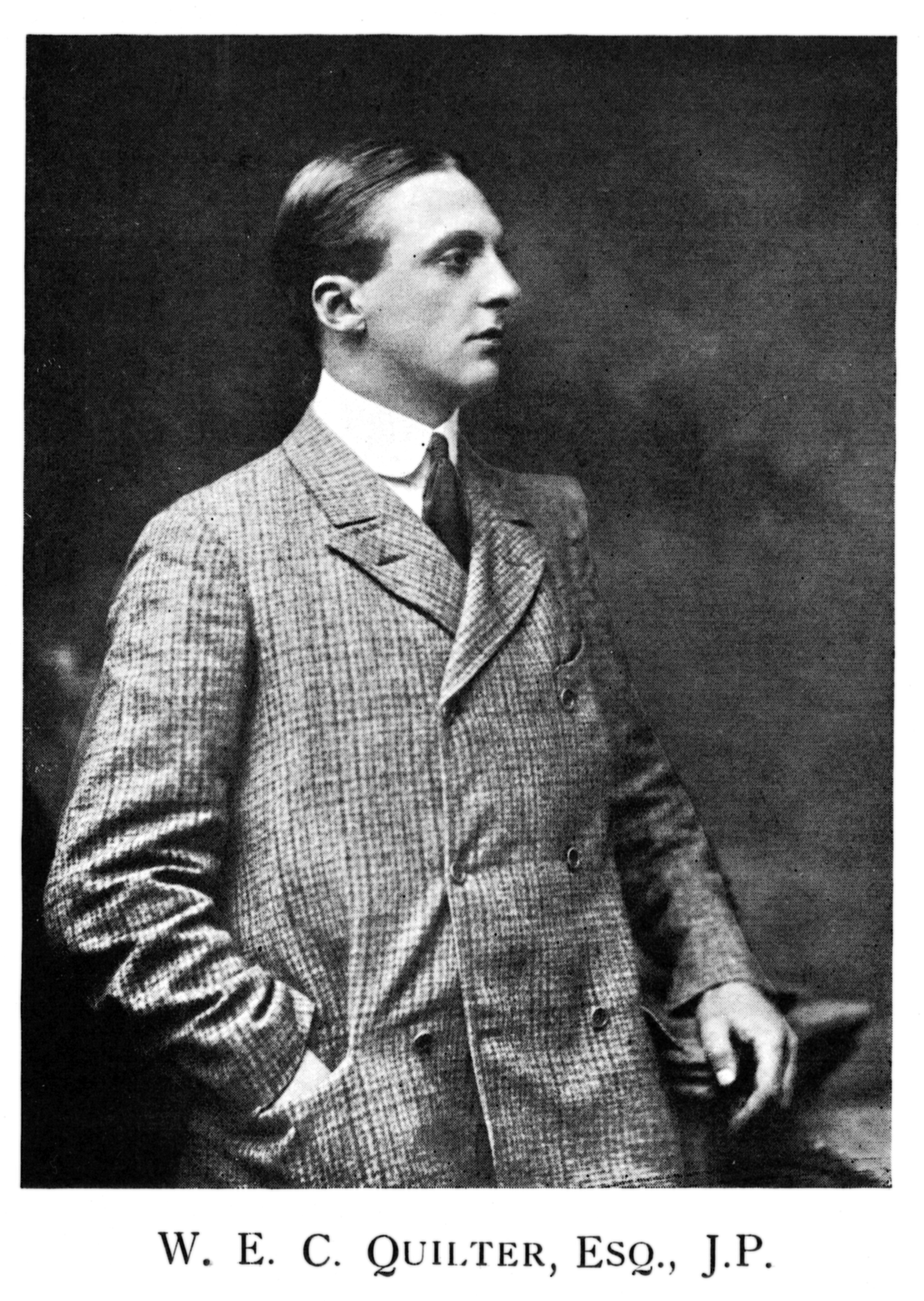 Photographic portrait (three-quarter view) of William Eley Cuthbert QUILTER (1873-1952) captioned W. E. C. QUILTER, ESQ., J.P. [Esquire, Justice of the Peace], from the book entitled Suffolk Leaders: Social and Political, by Charles Albert Manning PRESS (1869-1943) published (for subscribers only) in May 1906 by the Hornsey & Tottenham Press Ltd.